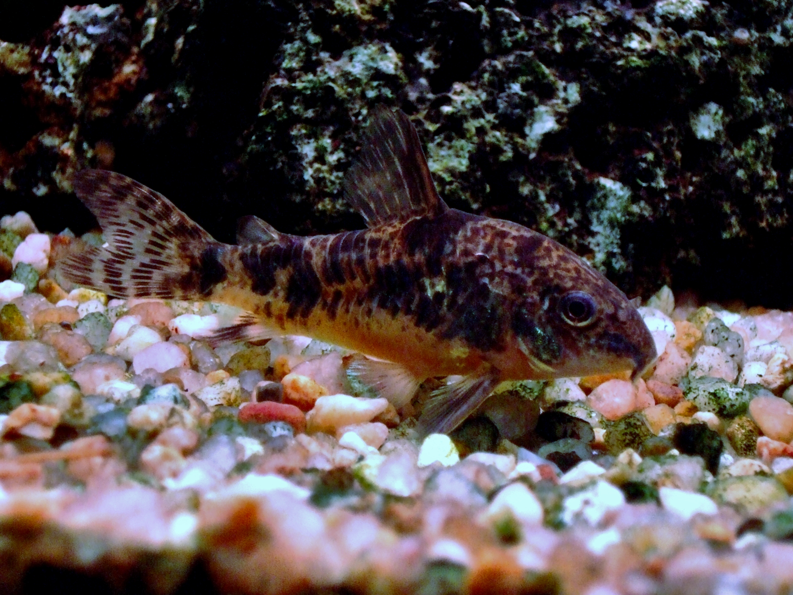 Corydoras paleatus